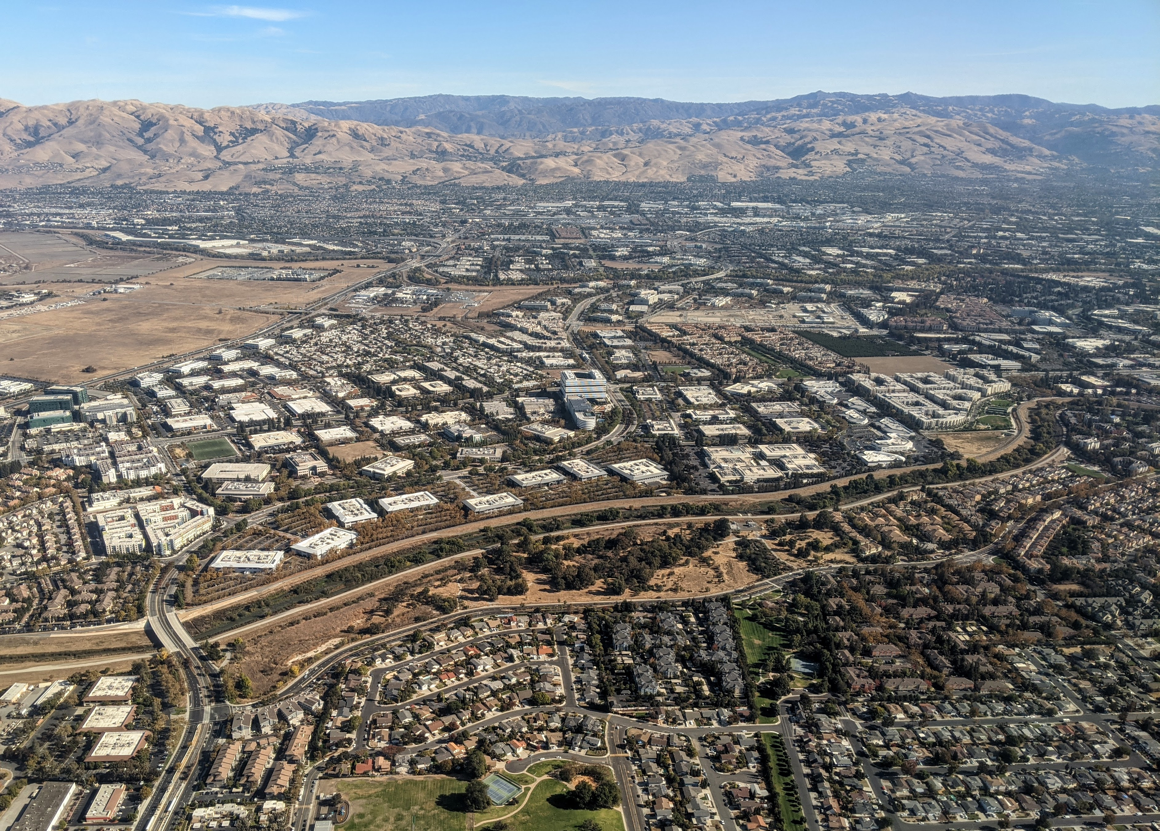 Aerial view of Ulistac Natural Area, along the Guadalupe River in Santa Clara, California. Lick Mill Blvd. runs along its near side. At left it is bounded by Tasman Drive, and at right by the Carlyle apartments. Across the river is San Jose's industrial northern neighborhood.